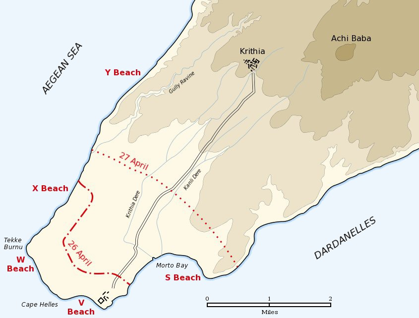 Map of the landing of the British 29th Division at Cape Helles on April 25, 1915 during the Battle of Gallipoli. The front line established by the night of April 26 is shown by the red dash-dot line. The front line reached by the night of April 27 is shown by the red dotted line. This became the "jumping off" line for the First Battle of Krithia.